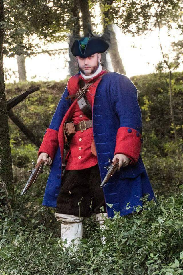 Miquelet of the Regiment Vilar i Ferrer (reenactor)